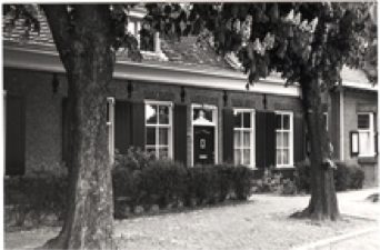 Berg 46 te Nuenen